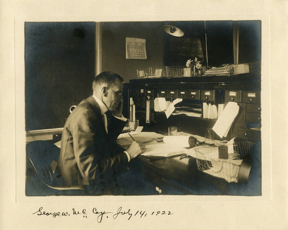 George Walter McCoy, authority on leprosy, and director of the National Institute of Health (1915-1937). McCoy, George Walter, (1876-1952), Physician, Directors (Administrators), National Institute of Health (U.S.).